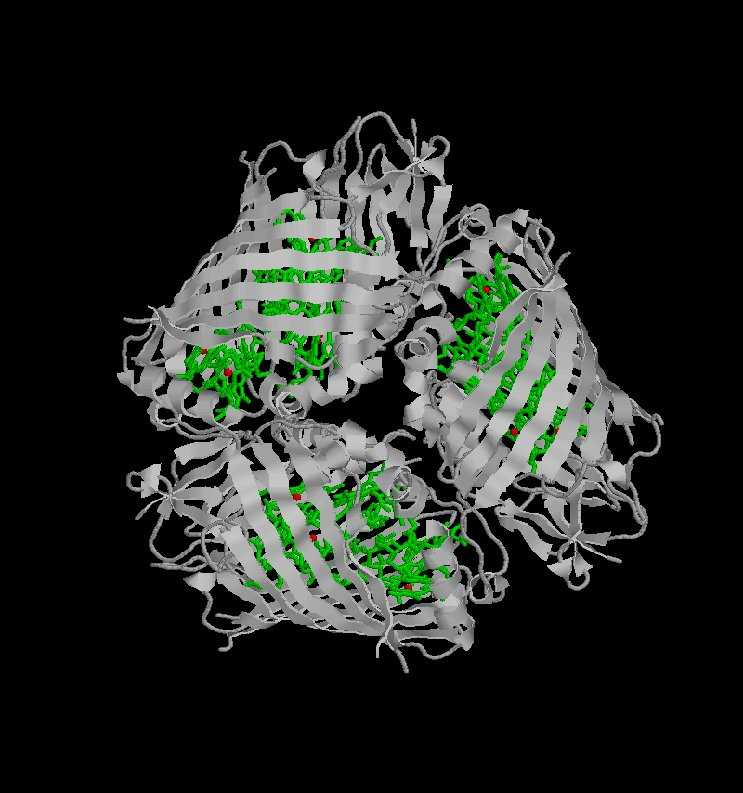 author: Julian Adolphs prepared using 4bcl.pdb (from protein data bank) and software "rasmol" (